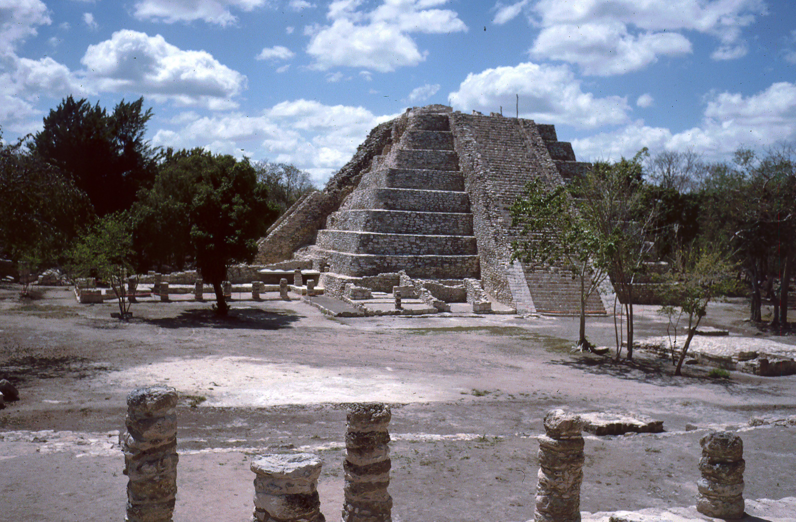 Mayapan, Yucaan, Mexico: The "El Castillo" pyramid.